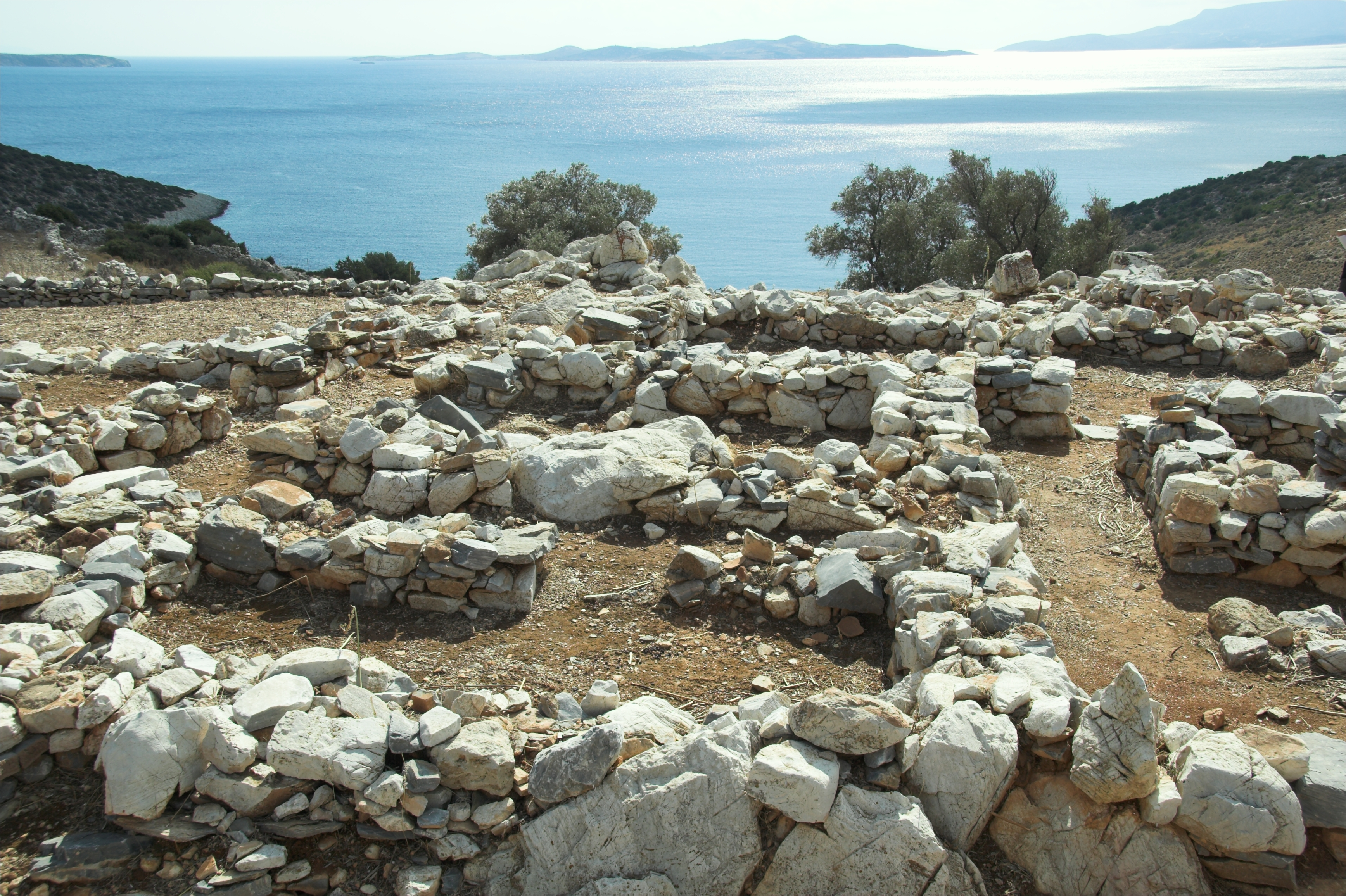 Early Cycladic settlement in Korfari ton Amygdalon over the bay of Panormos, Naxos, Early Bronze Age.